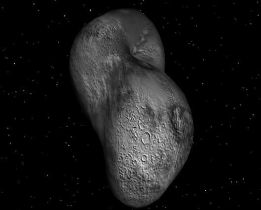 An artist's conception of what the Jovian moon Themisto might look like.